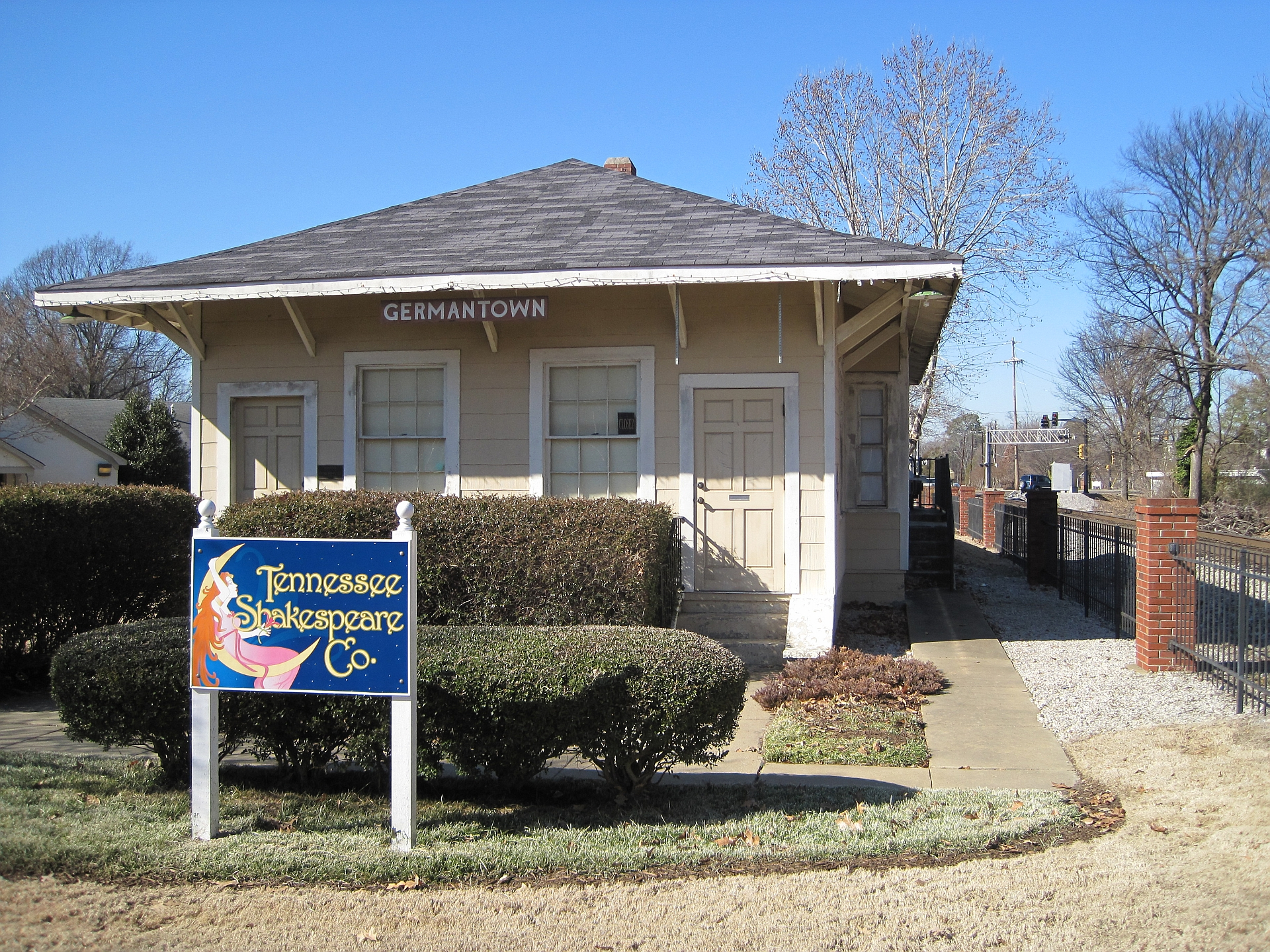 Train station in Germantown, Tennessee.